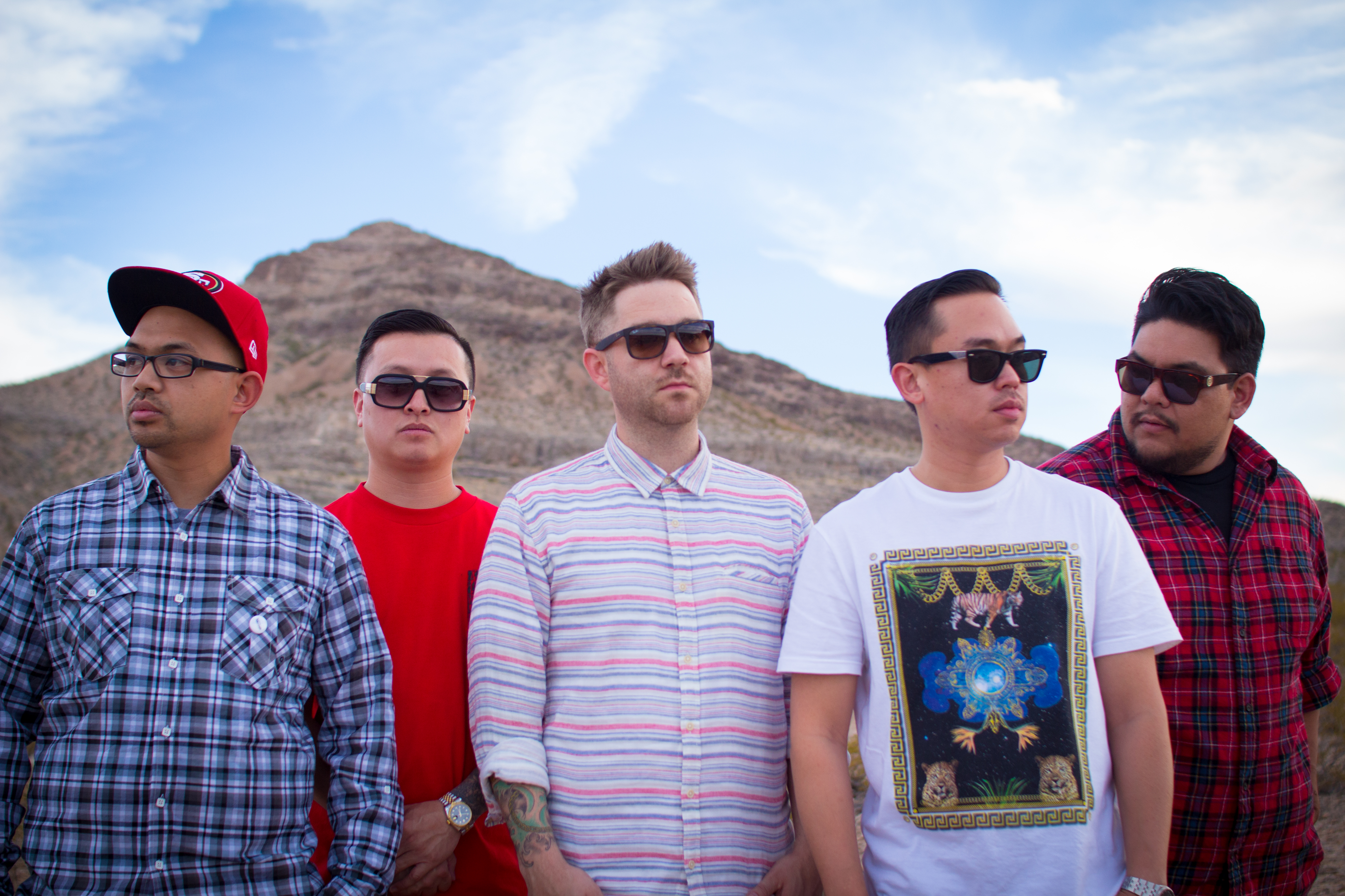 The Bangerz